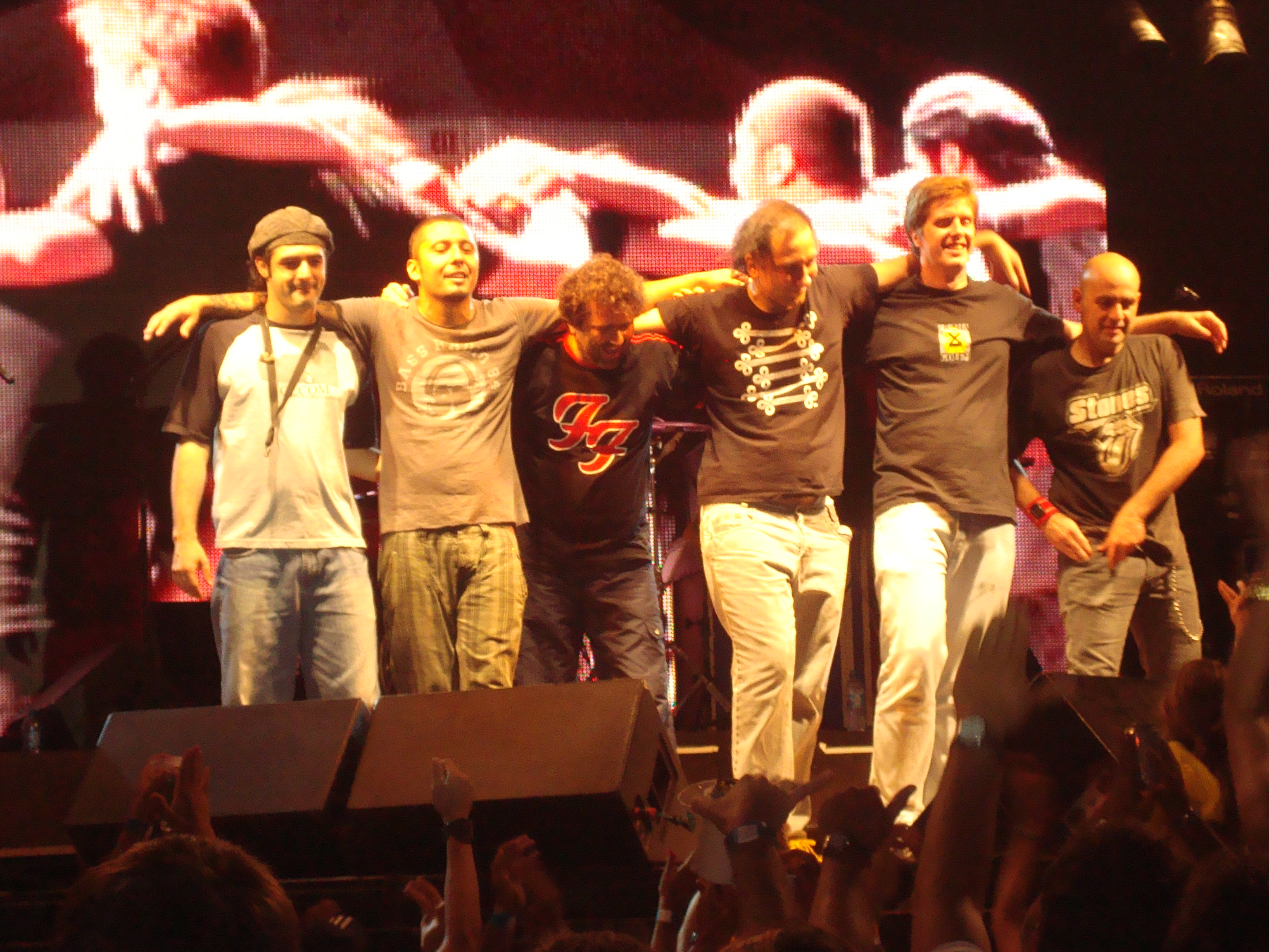 Bíquini Cavadão in 2009